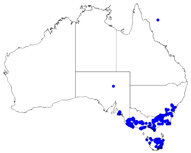 Boronia nana downloaded from Australasian Virtual Herbarium 10 April 2019 using This download included all the environmental overlay fields and ALA's data checking fields including "cultivated / escapee", "outside expert range for species", "latitude is negated", "coordinates are transposed", "taxon misidentified", "habitat incorrect for species", and "suspected outlier" (711 fields). Deleting occurrences for which any of the above were true, 46 specimens with coordinates were deleted.